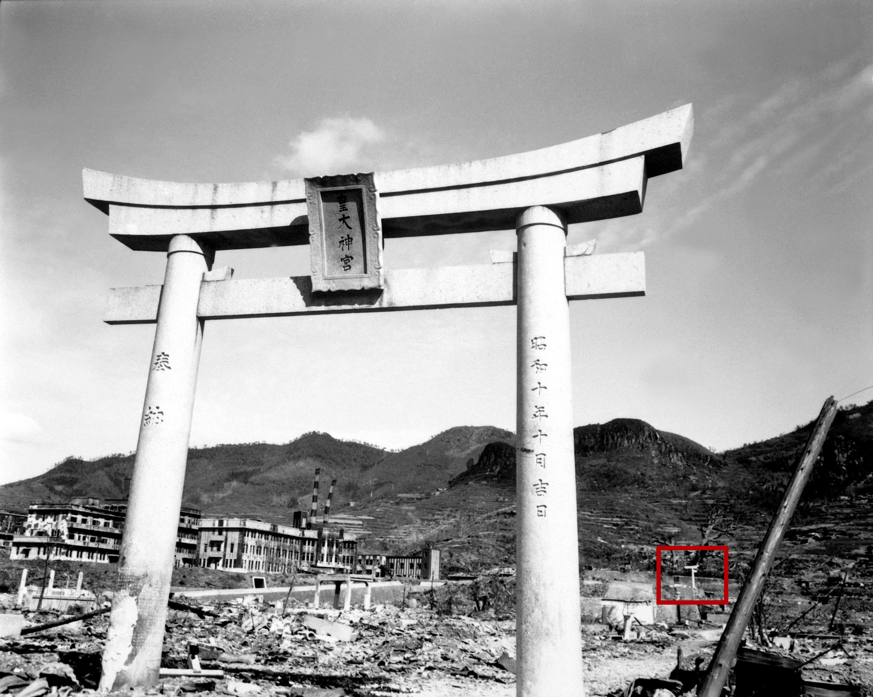 In the foreground in in the Ichino torii. In the red box is Sannō Shrine's second torii (with only one supporting column still standing); and just behind the torii is the main platform of the shine precincts. Context note: One of the two pillars of the Sannō Shrine torii was toppled by the A-bomb blast. The blast also blew away the branches and leaves of the two camphor trees in the precincts of the Shrine, which were then more than 500 years old. At that time, it was feared that the trees might wither and die; however, they gradually began to recover, and now are thickly covered with leaves and branches.